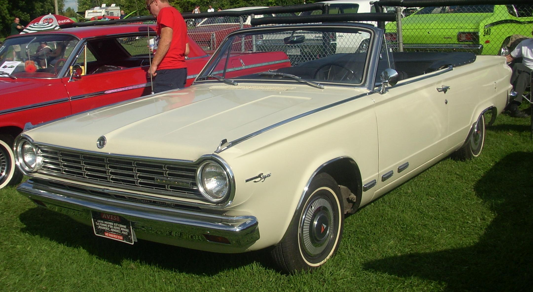 1965 Plymouth Valiant photographed at the Rassemblement Rigaud Car Show.